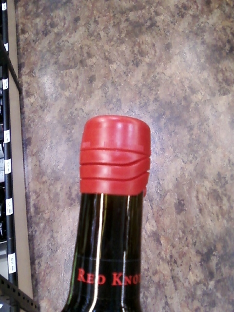 A photograph of a Zork wine closure (an alternative closure to traditional cork).